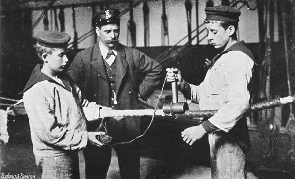 A useful instruction for young sailors from the Royal Hospital School, Greenwich.Author: National Maritime Museum from Greenwich, United KingdomReproduction ID:: H1345Maker: Unknown